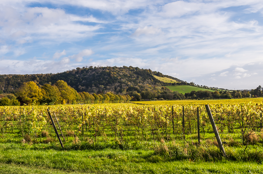 TQ 16356 50972 from TQ 16341 50972